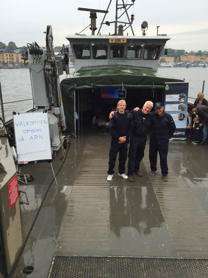 Dan Koehl on the ship Arn